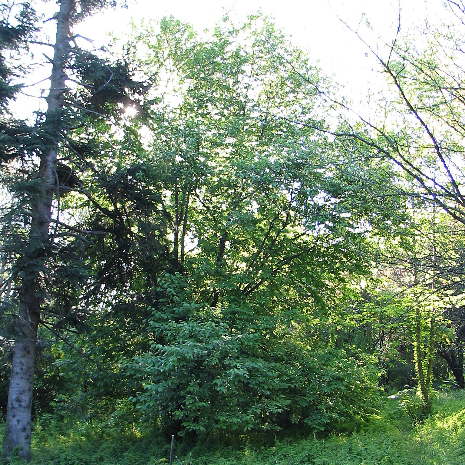 Prunus serotina tree